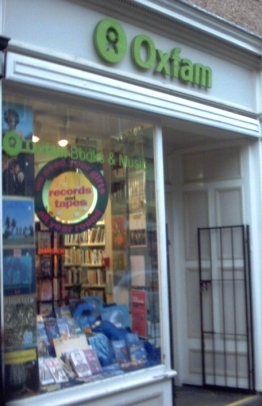 Oxfam bookshop, 116 Nicolson Street, Edinburgh. Taken by User:Nydas on 12/02/07.